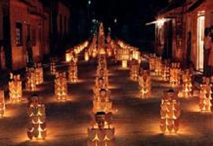 Photography of Dia de las Velitas paper lanterns.